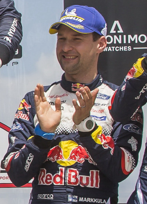 Mikko Markkula on the podium of the 2018 Rally de Portugal (3rd)